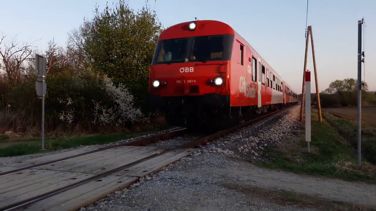 ÖBB Cityshuttle Wendezug zwischen Fürstenfeld und Bierbaum auf der Thermenbahn.